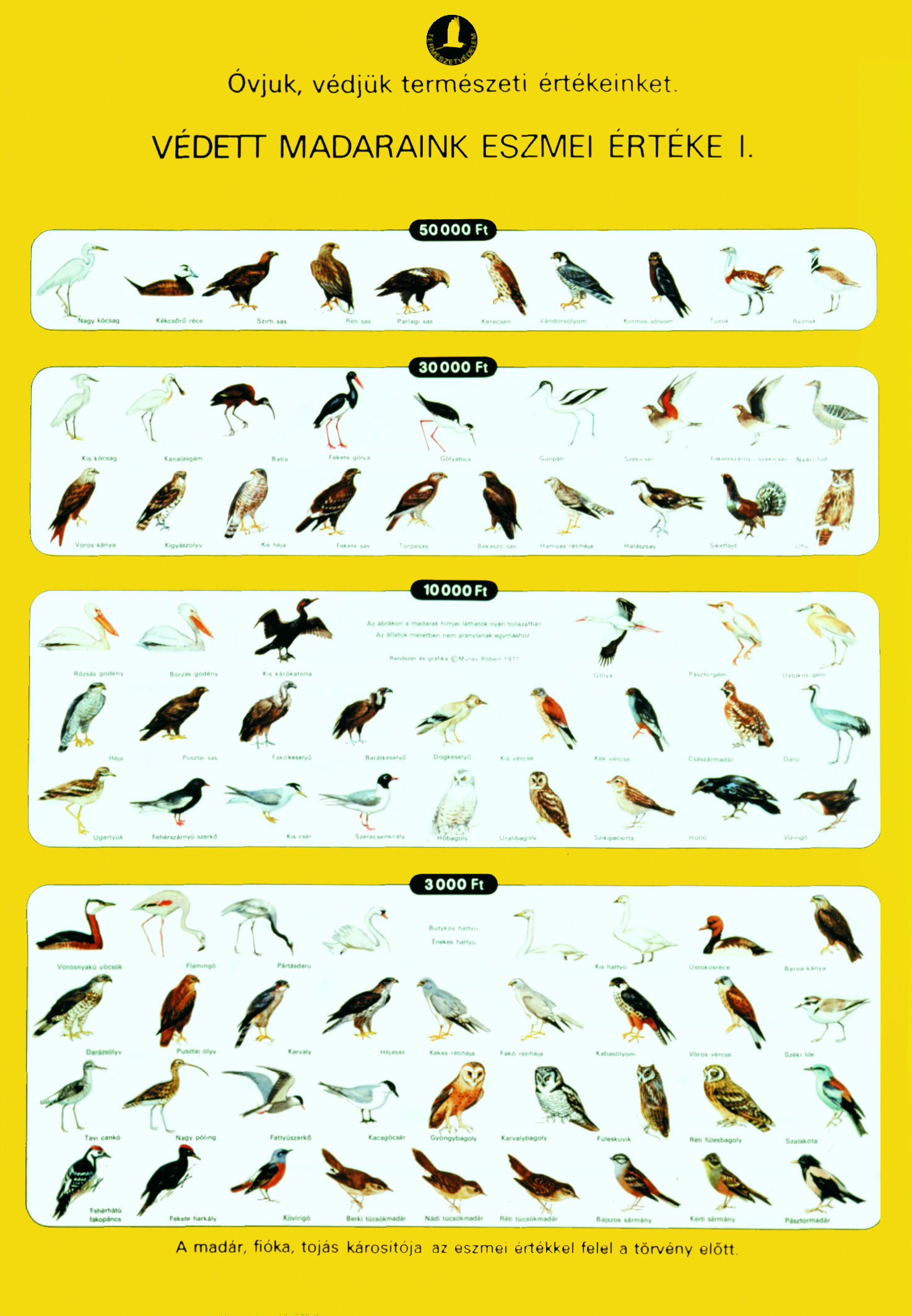 Poster listing birds protected in Hungary